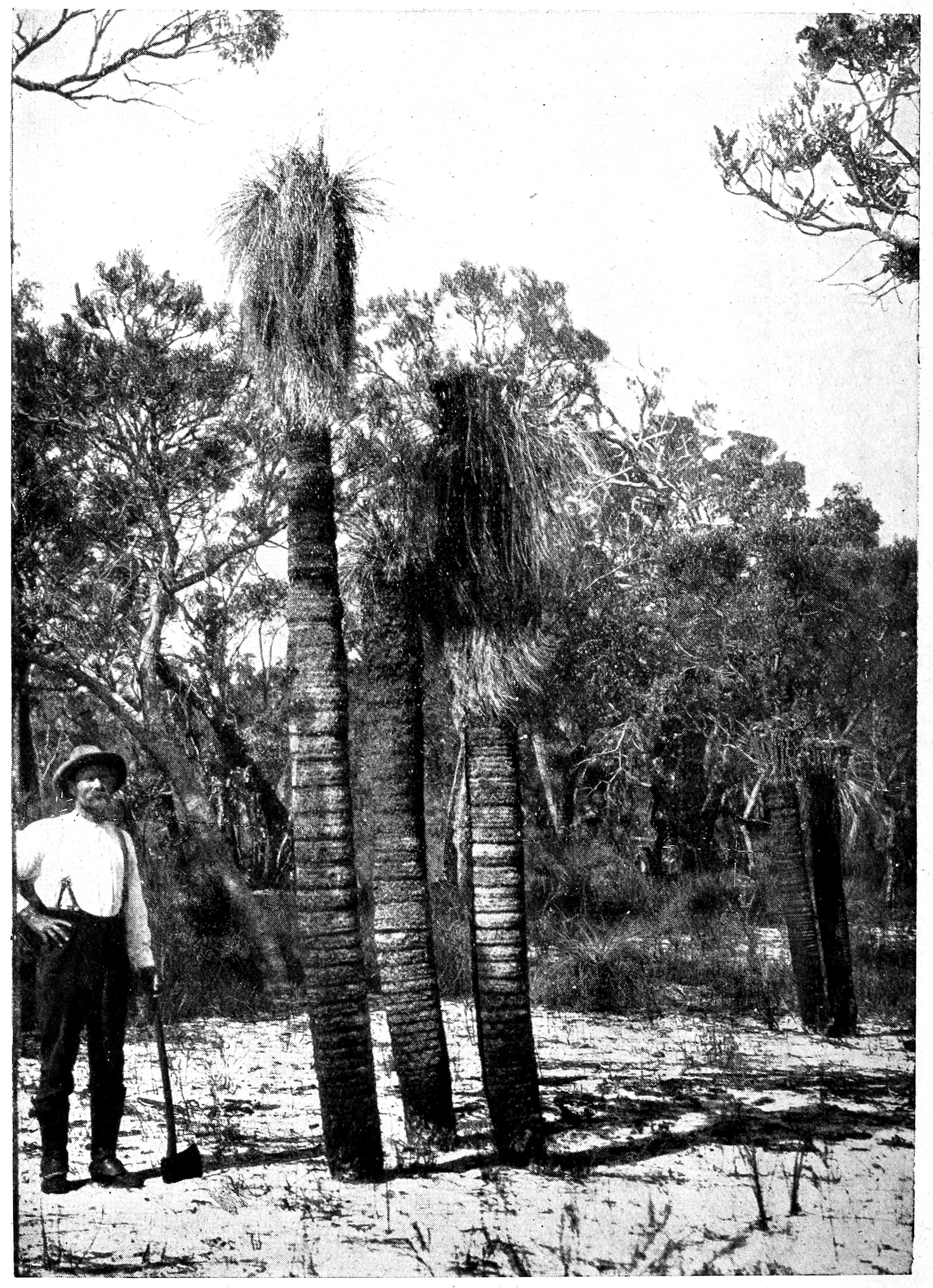 Photograph illustrating source, removed caption in title of image. Categorised by the systematic name given in text, or current synonym in taxonomy at commons.